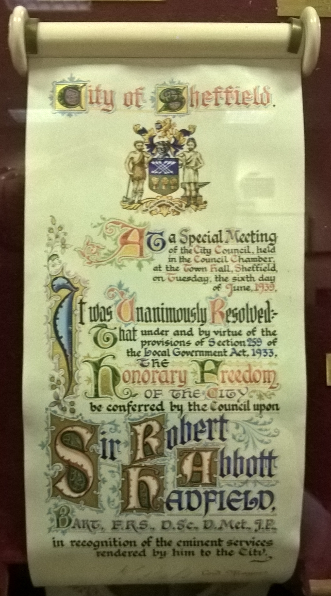 Document dated 6 June 1939, conferring the Freedom of the City of Sheffield to Sir Robert Hadfield. On display in the Hadfield Room of the University of Sheffield